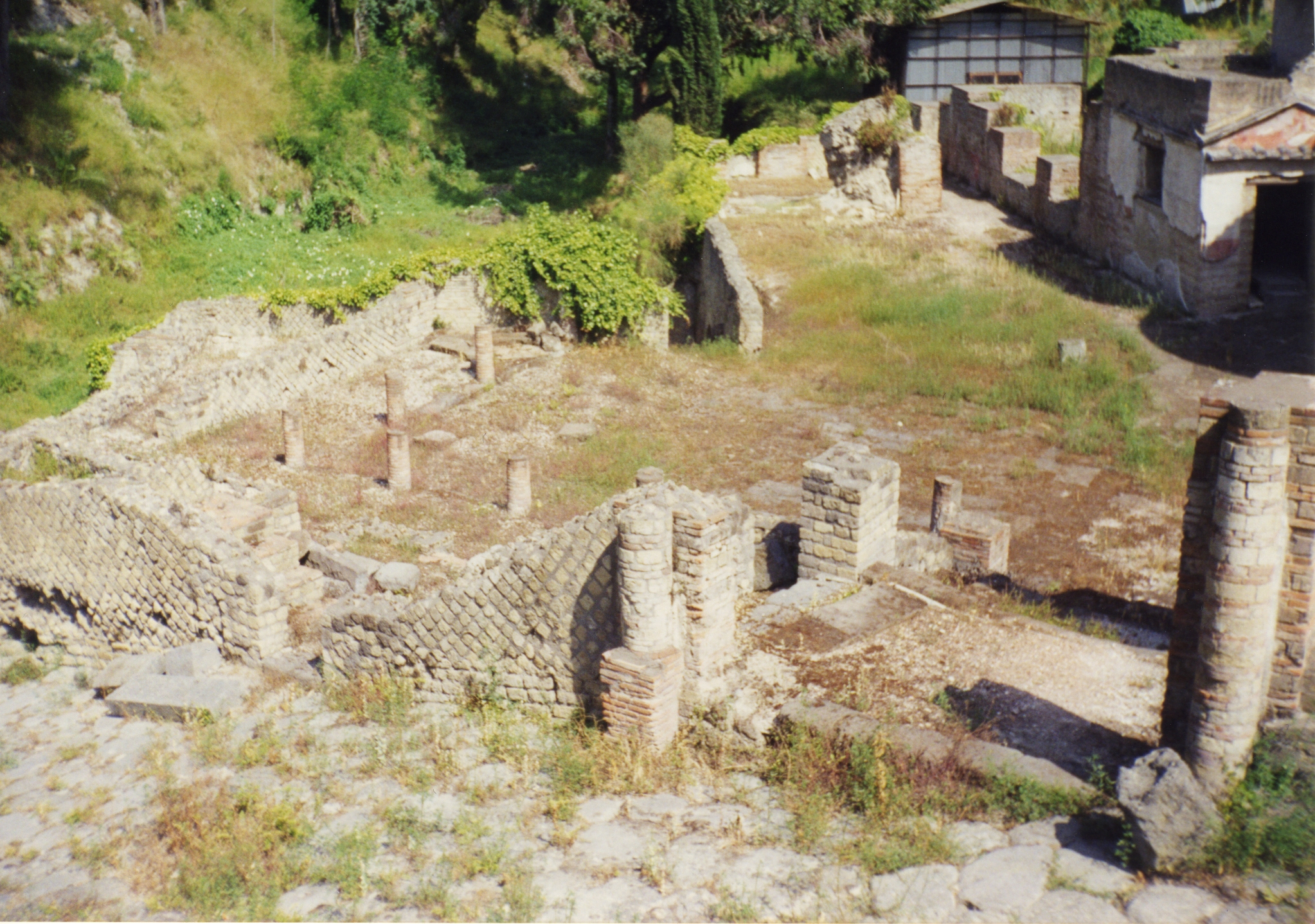 Suburban Thermae at Pompeii, Italy. Photo taken in 2000 using 35mm film camera. Digitally scanned on 7 November 2009.